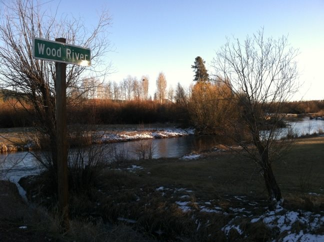 Wood River off Hwy 62, Fort Klamath, Oregon